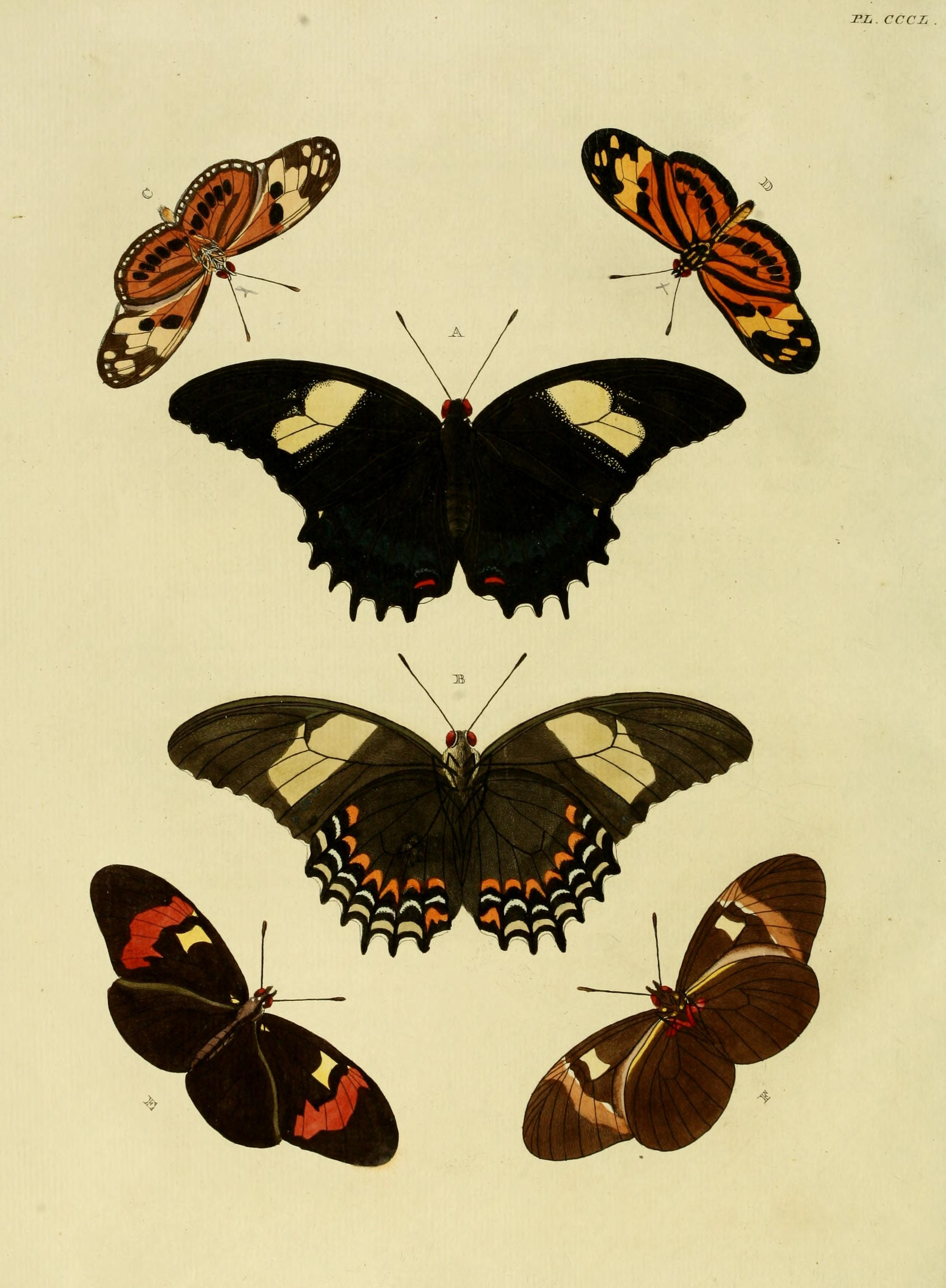 Plate CCCL Warning: some taxa/names may be misidentified/misapplied or placed in a different genus. A, B: "(Papilio) Androgeus" ( = Papilio androgeus (Cramer, [1775])), see Funet. Photos at Butterflies of America. Female. Male on plate 16 C, D. Also on pl. 203 A, B as "(Papilio) Polycaon" and pl. 204 A, B as "(Papilio) Piranthus". C, D: "(Papilio) Isabella" ( = Eueides isabella (Stoll, [1781]), iconotype?, see Funet). Photos on Encyclopedia of Life. E, F: "(Papilio) Lucia" ( = Heliconius melpomene melpomene (Linnaeus, 1758), see Funet. Also on pl. 188 A as "(Papilio) Cybele" (ssp. meriana) and on pl. 191 C as "(Papilio) Melpomene".